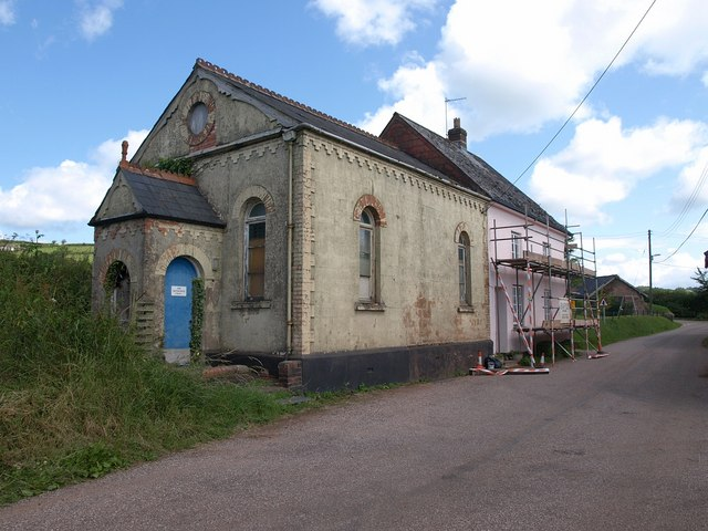 Methodist chapel, Chevithorne, Devon. says its register was opened in 1843.